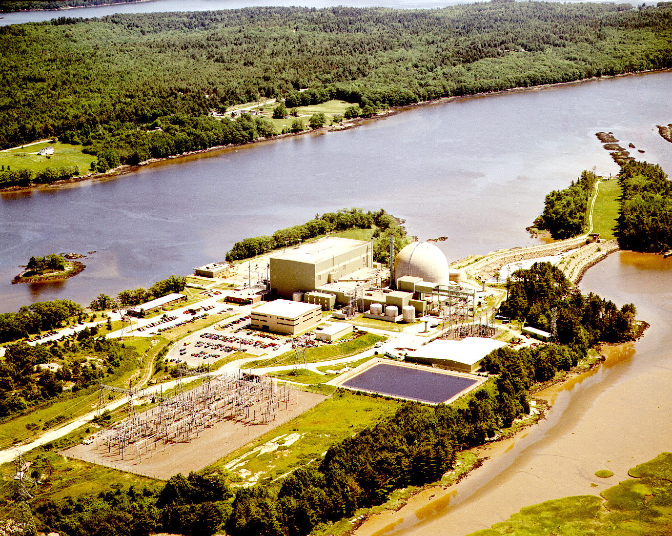 Maine Yankee Nuclear Power Plant is located on the Bailey Peninsula of Wiscasset, ME in NRC Region I.